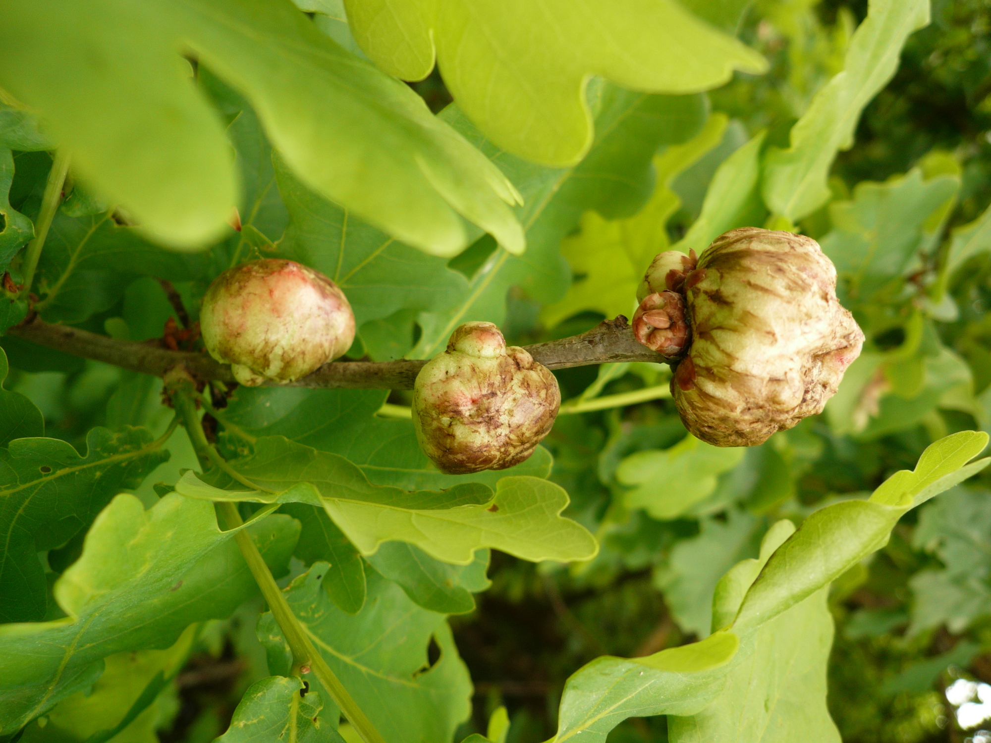 Galls on an oak tree